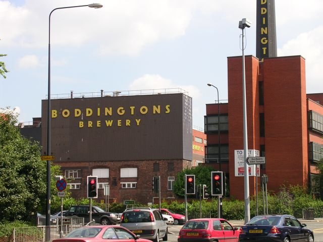 Strangeways Brewery, Manchester. Another view of Boddington's Brewery, now closed. on the corner of Great Ducie Street and New Bridge Street. Taken from SJ838992.